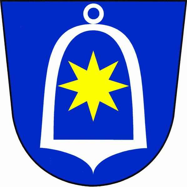 Municipal coat of arms of Žernov village, Náchod District, Czech Republic.